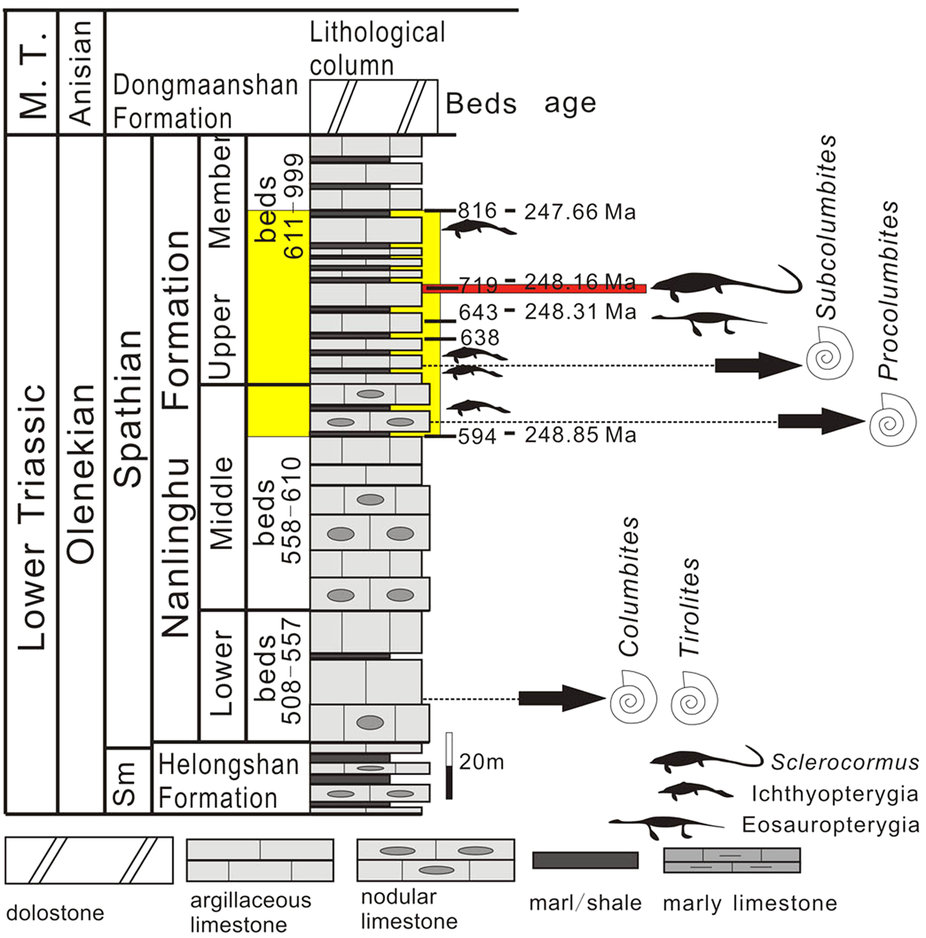 Stratigraphic horizon of Sclerocormus parviceps gen. et sp. nov. The specimen is from bed 719 (red) within the Upper Member of the Nanlinghu Formation. Stratigraphic ranges of Early Triassic marine reptiles are marked by yellow. Abbreviations: M.T., Middle Triassic; Sm, Smithian.